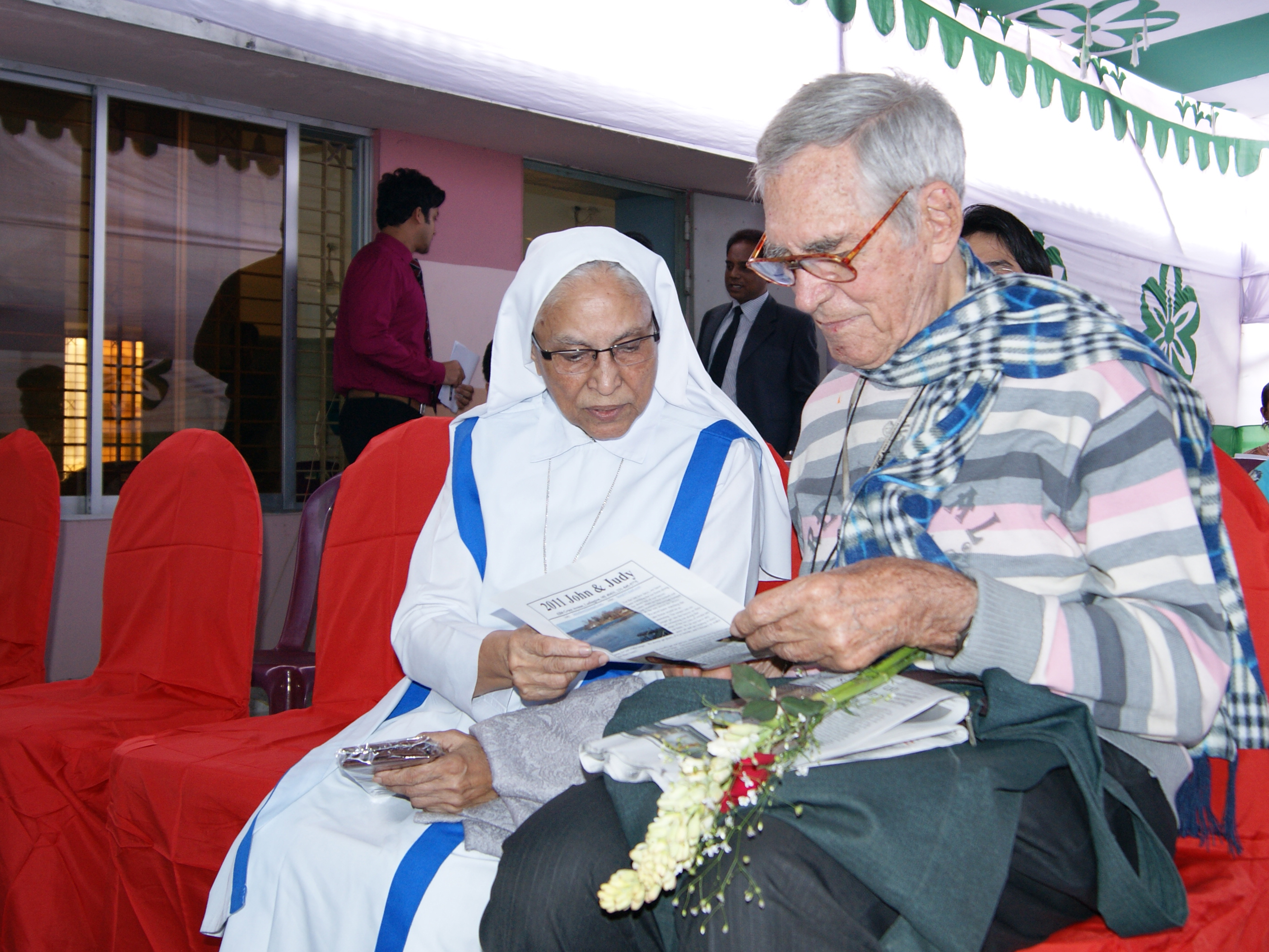 Date: 5th January, 2012. Venue: CORR- The Jute Works (a Trust of Caritas) Occasion: Pacing Inauguration Ceremony. He and Sister Merry Lillian (SMRA) are the Life-trusties of this organization since it started in 1973.